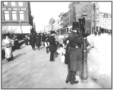 19th century American police call box.